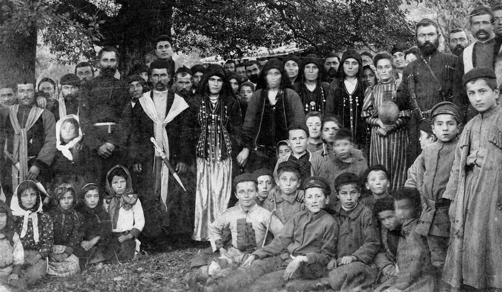 A Batsbur wedding in the village of Zemo Alvani (eastern Georgia). The date and the names of those depicted is unknown.